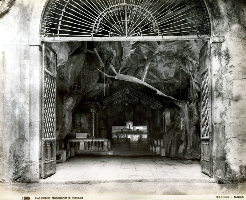 Giorgio Sommer (1834-1914), "Palermo - Sanctuary of Saint Rosalia". Catalogue number: 1365.